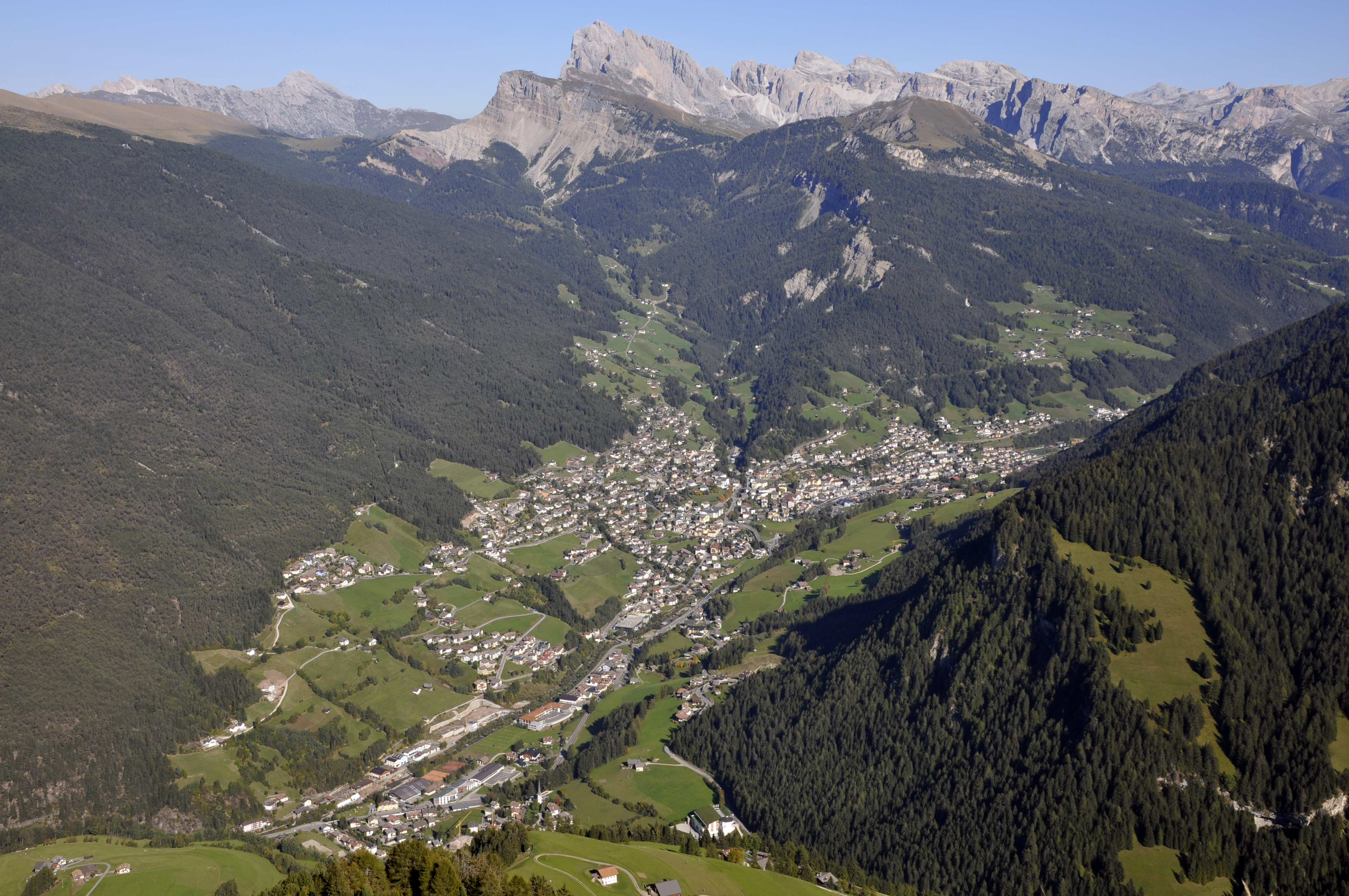 Urtijëi in Val Gardena from the mount Bulacia.